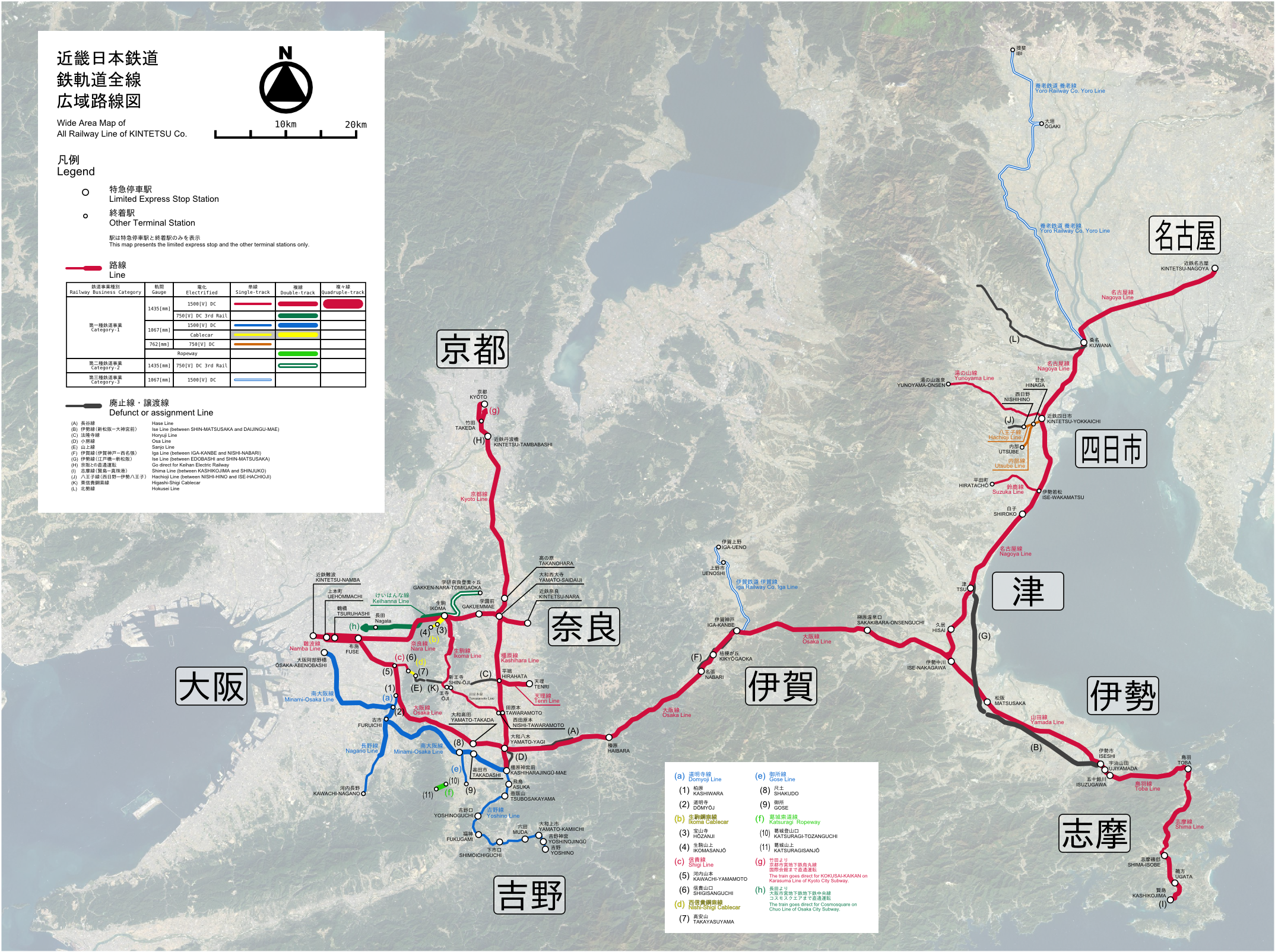 Wide area map of Kintetsu Corporation rail network